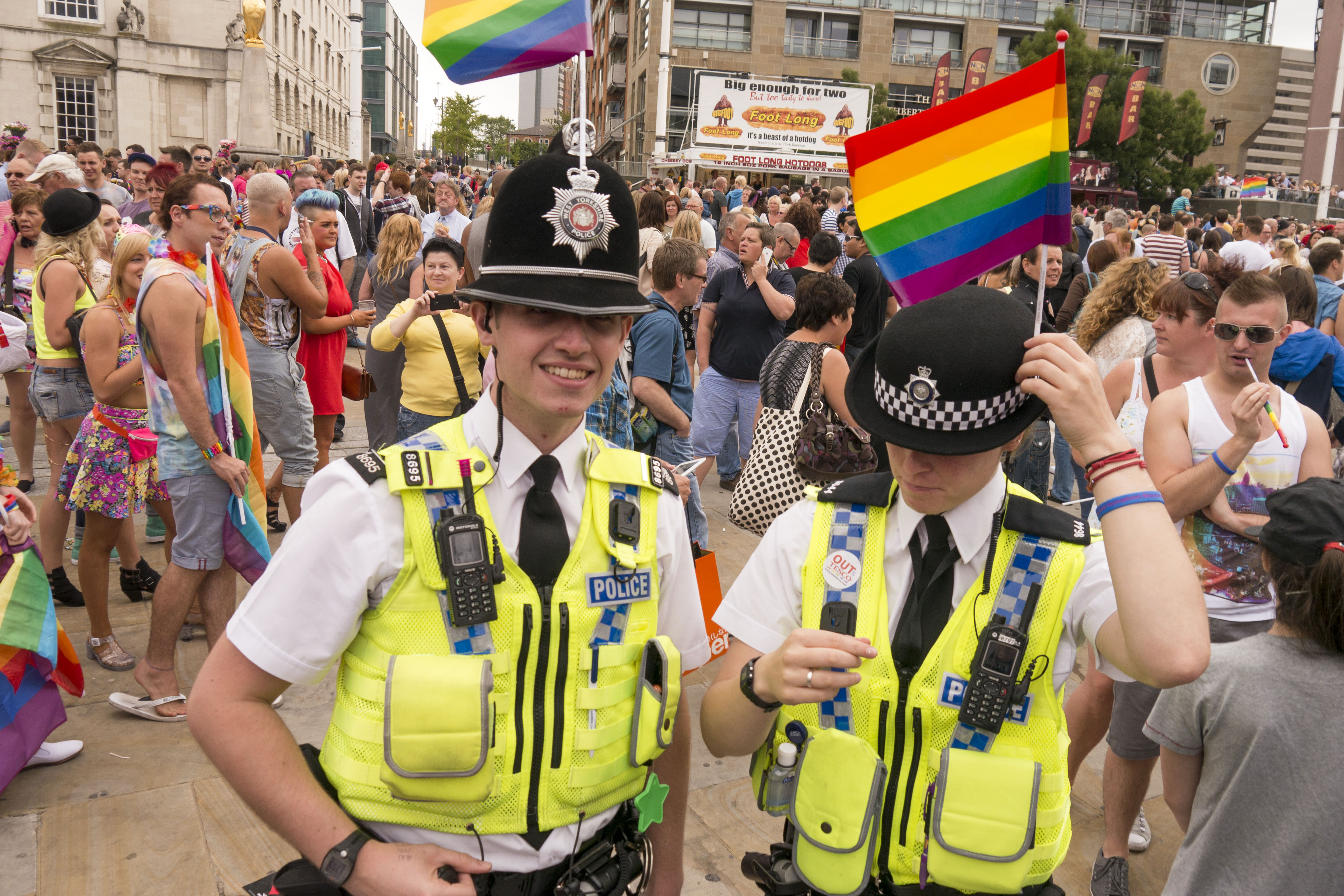 Street life Leeds Pride 2013